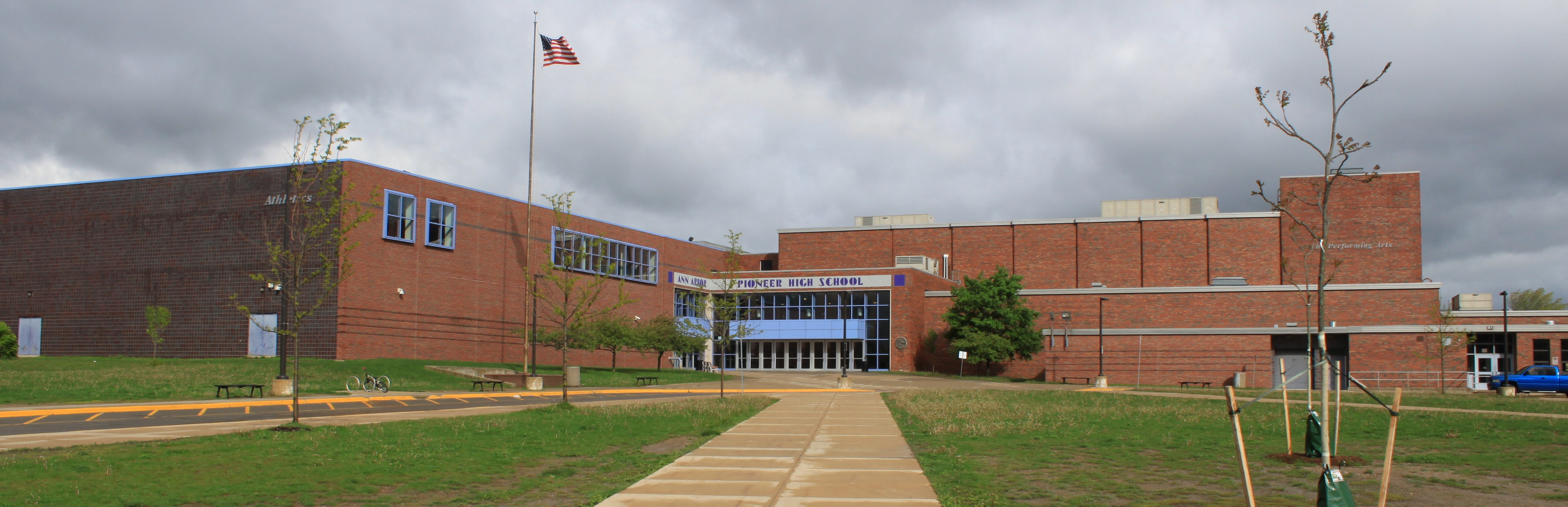 Pioneer High School, 601 W. Stadium Blvd., Ann Arbor, Michigan 48103